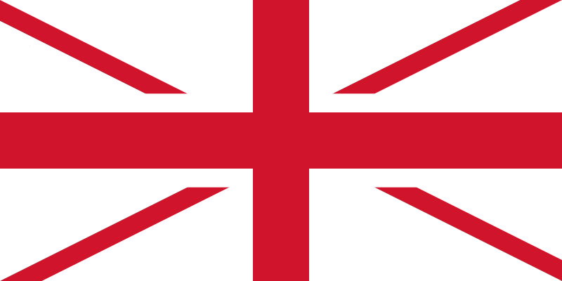 Flag of the United Kingdom without the blue background (as ironic purposes heard before the Scottish independence referendum of 2014)